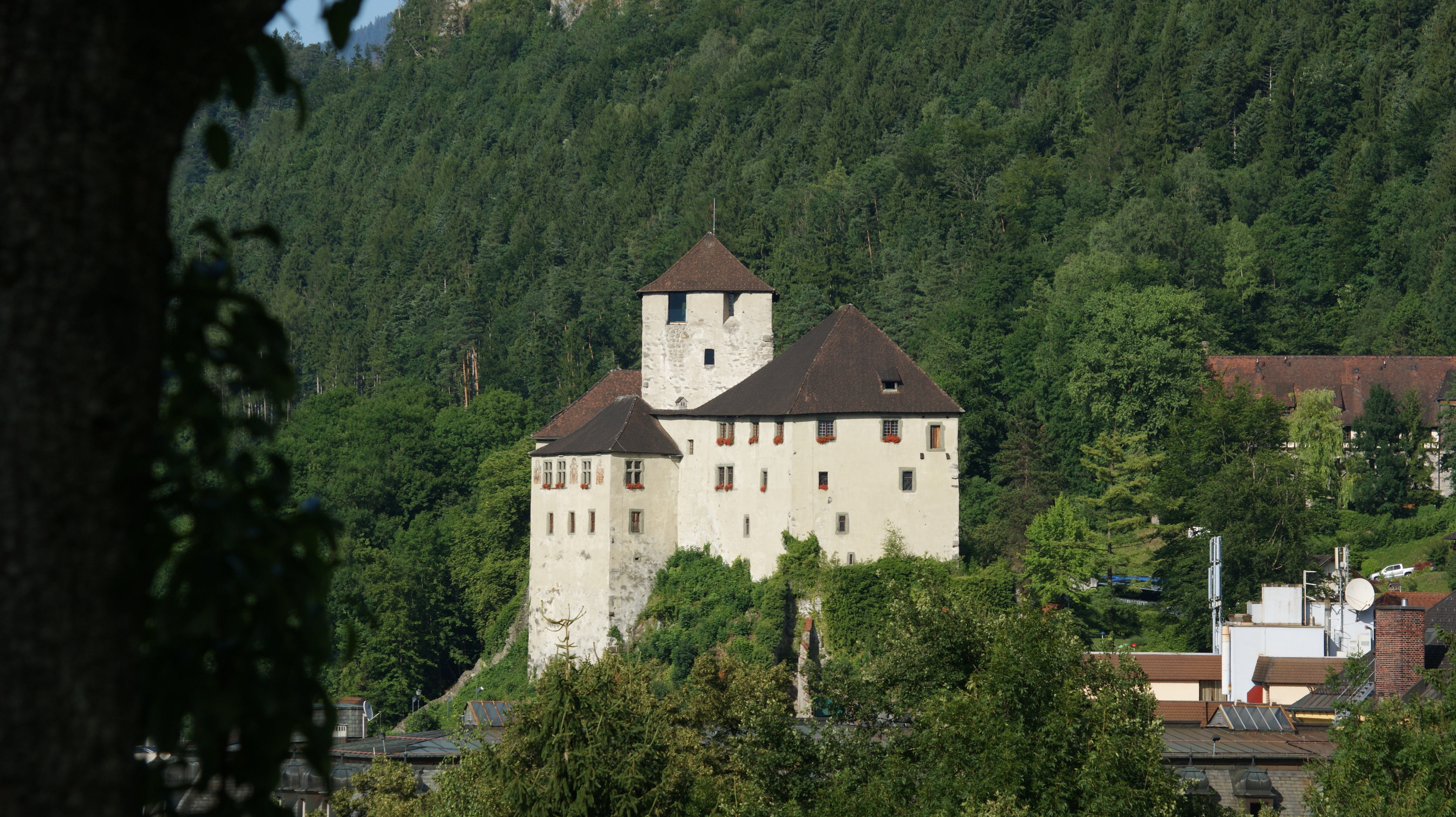 Schattenburg (castle) in Feldkirch in Vorarlberg, Austria, 12th century.